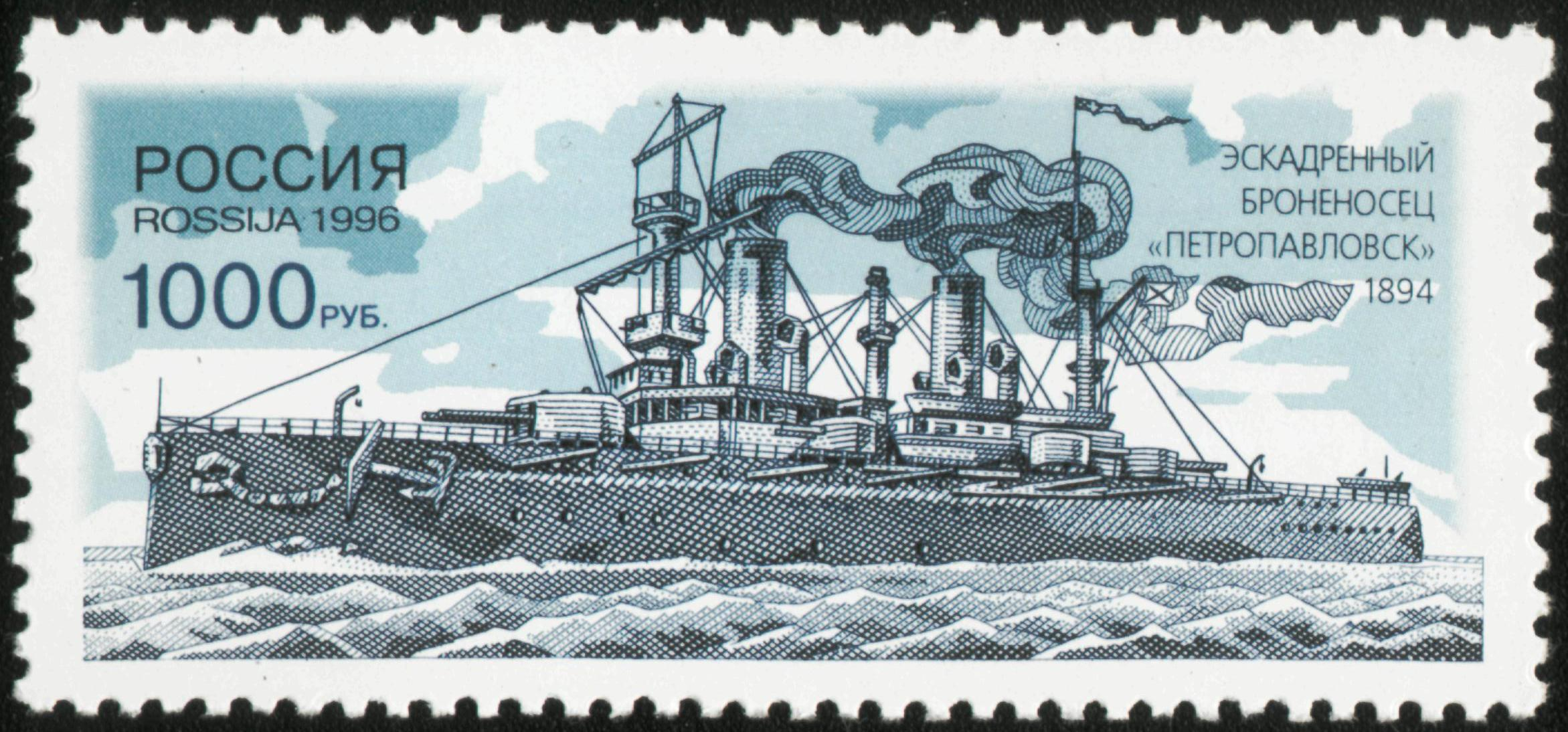 Stamp of Russia "Petropavlovsk". 1996, 1000 rubles, CPA #?